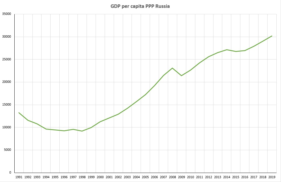 GDP per capita in Russia, purchasing power parity, international dollars per capita. Based on IMF data.1